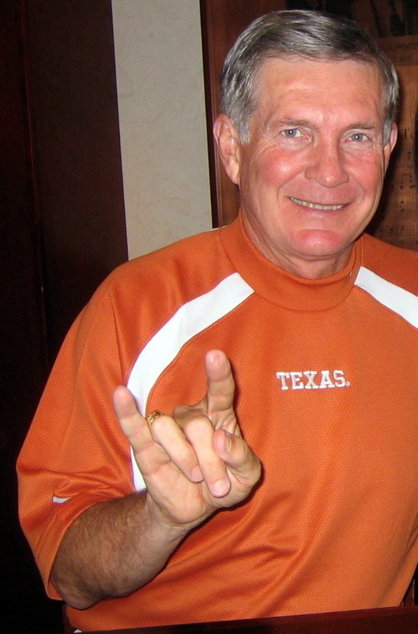 Mack Brown of The University of Texas at Austin gives the Hook 'em Horns sign at the Mack Brown Women's Football Clinic.